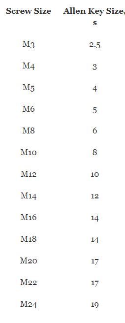 Screw Size vs Allen Key Size for user